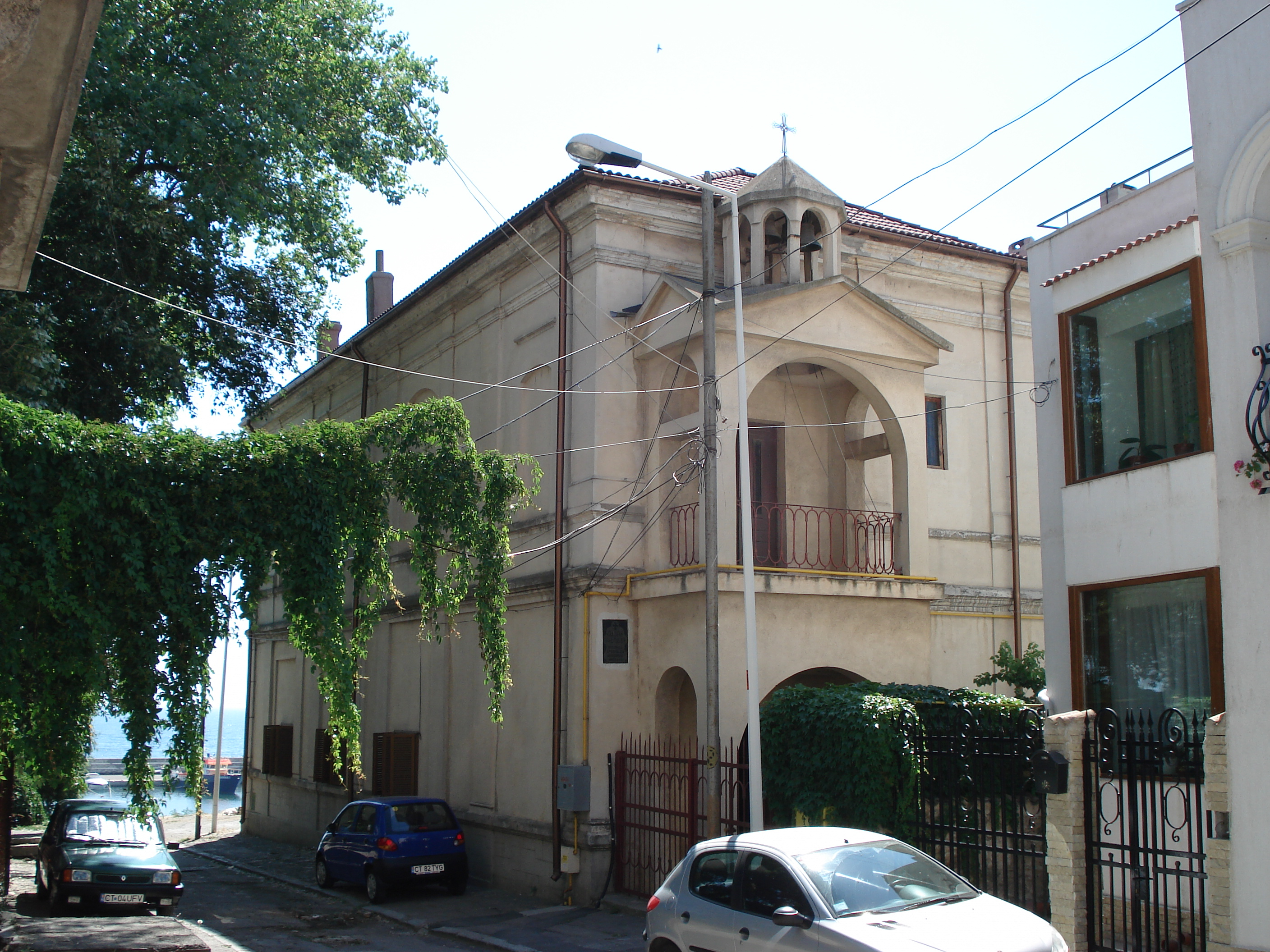 Armenian Orthodox Apostolic Church, Constanţa